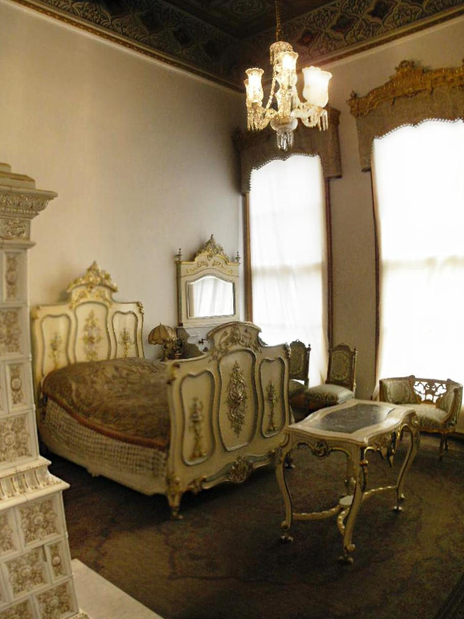 Bedroom of the Sultan Mother (Valide Sultan Yatak Odası) in Dolmabahçe Palace (#19 of the tour).